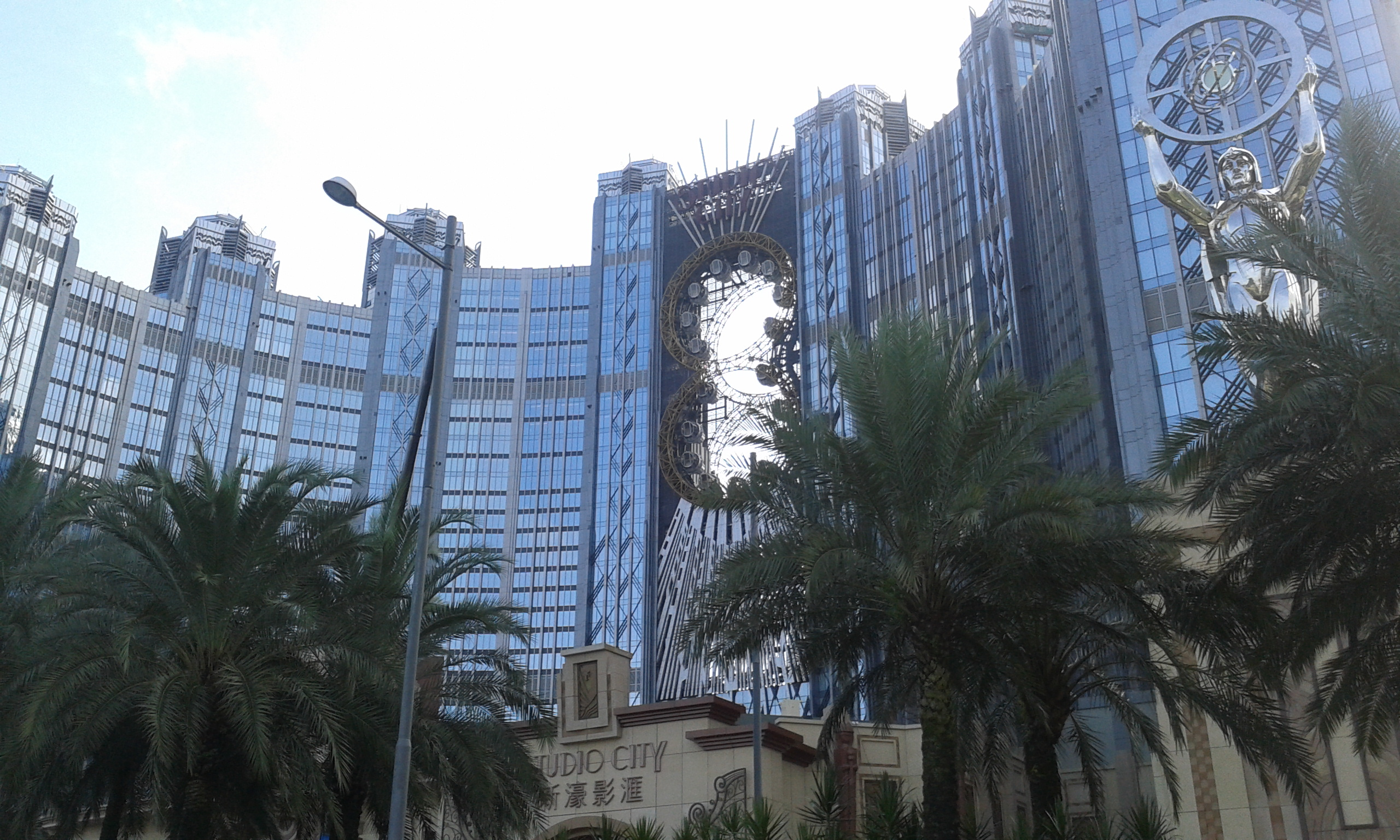 Studio City Macau